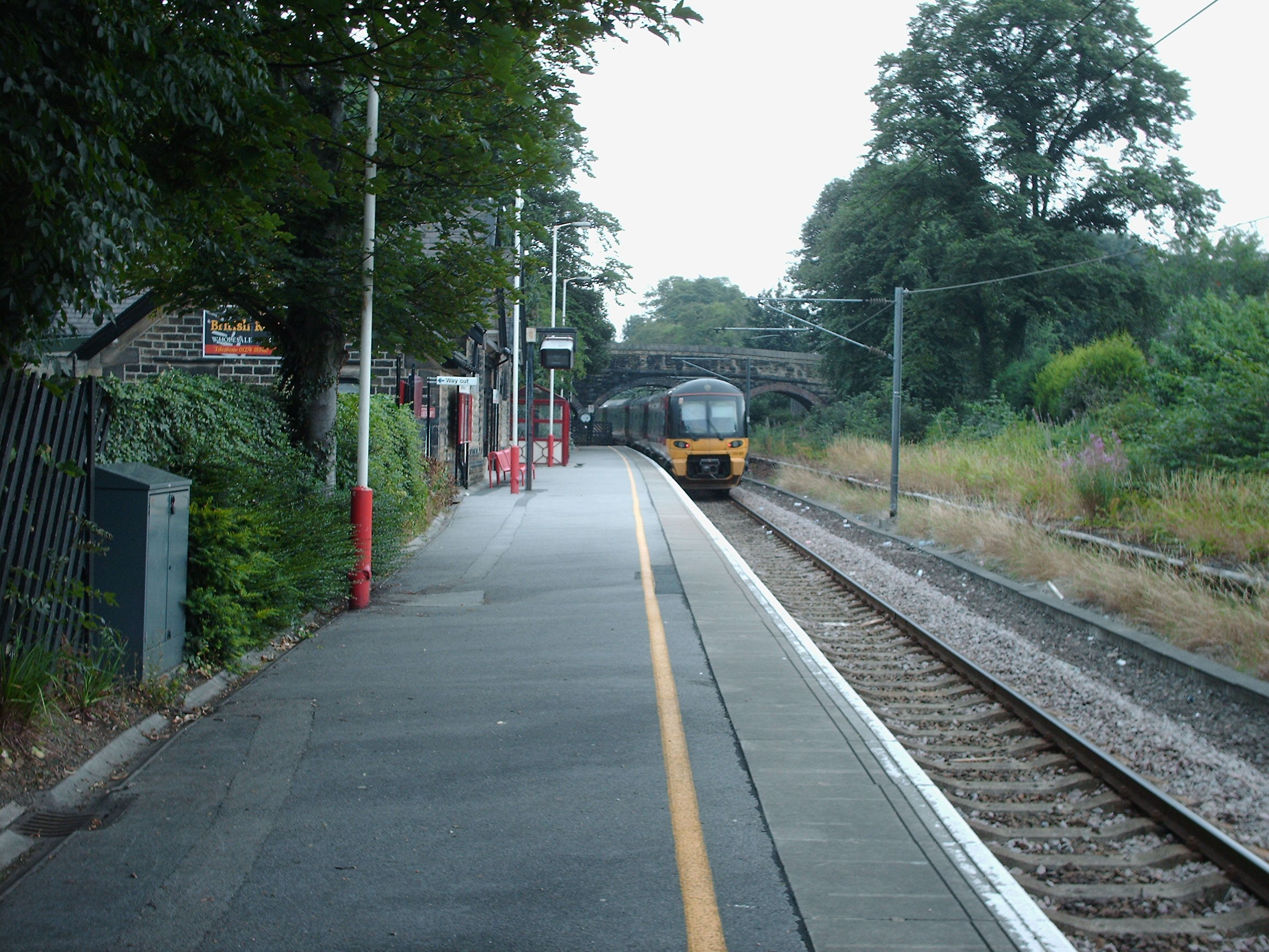 Baildon railway station, West Yorkshire, England. EMU 333009 departing.